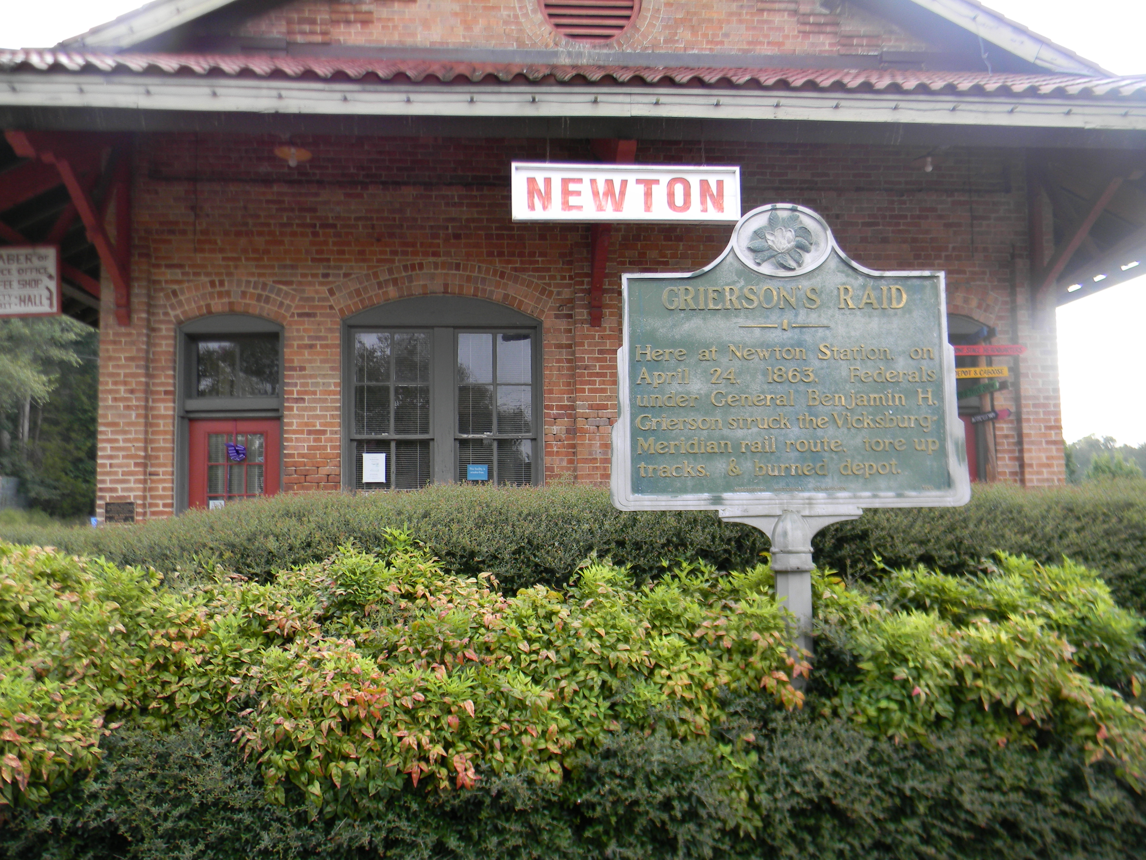 Alabama and Vicksburg Railroad Depot, S. Main St. Newton